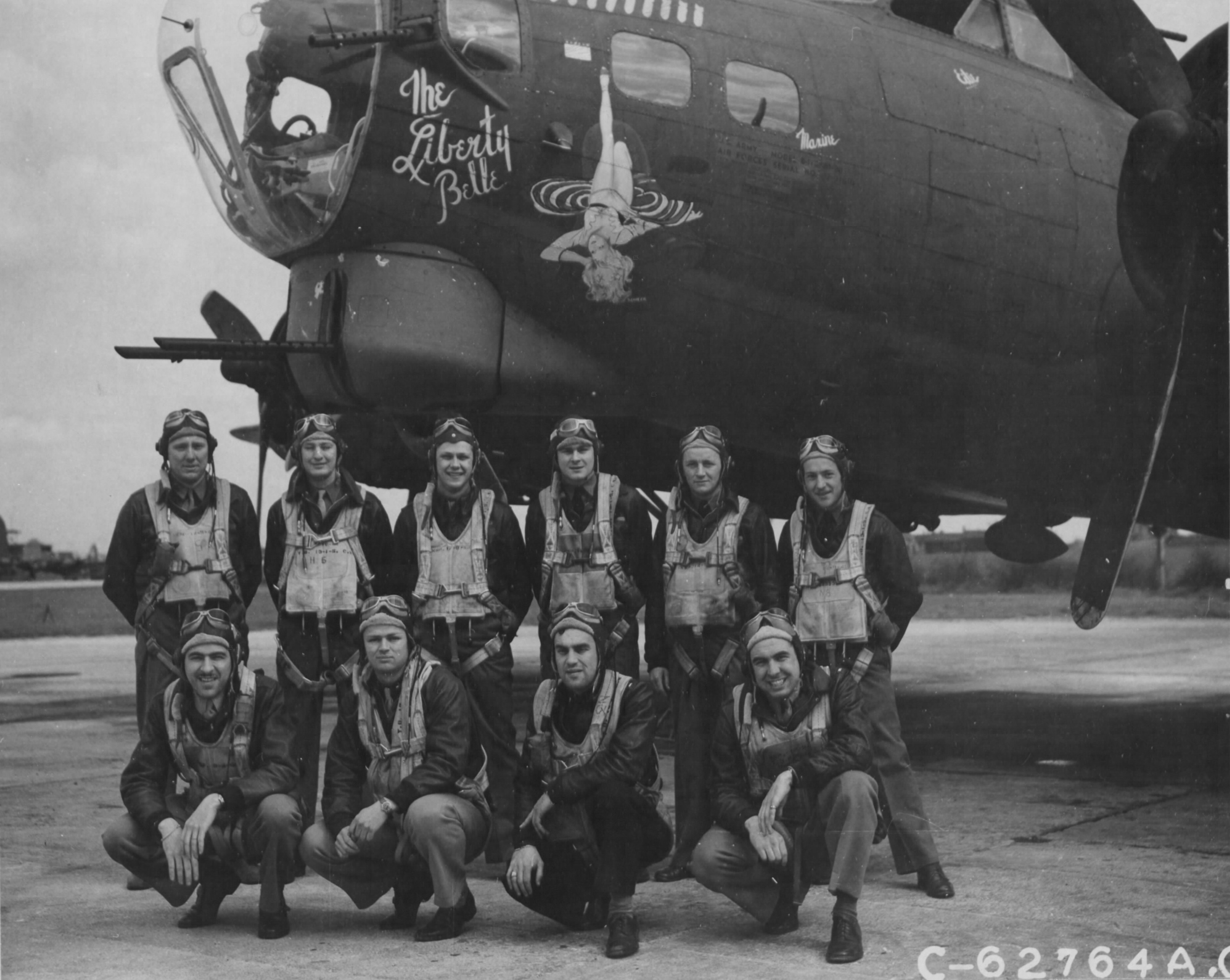 Annotated on the top of the photograph "Orig 4x5 neg rec'd May 1946 from Hdq., 91st Bomb Group, AAF Station 121, APO #557."